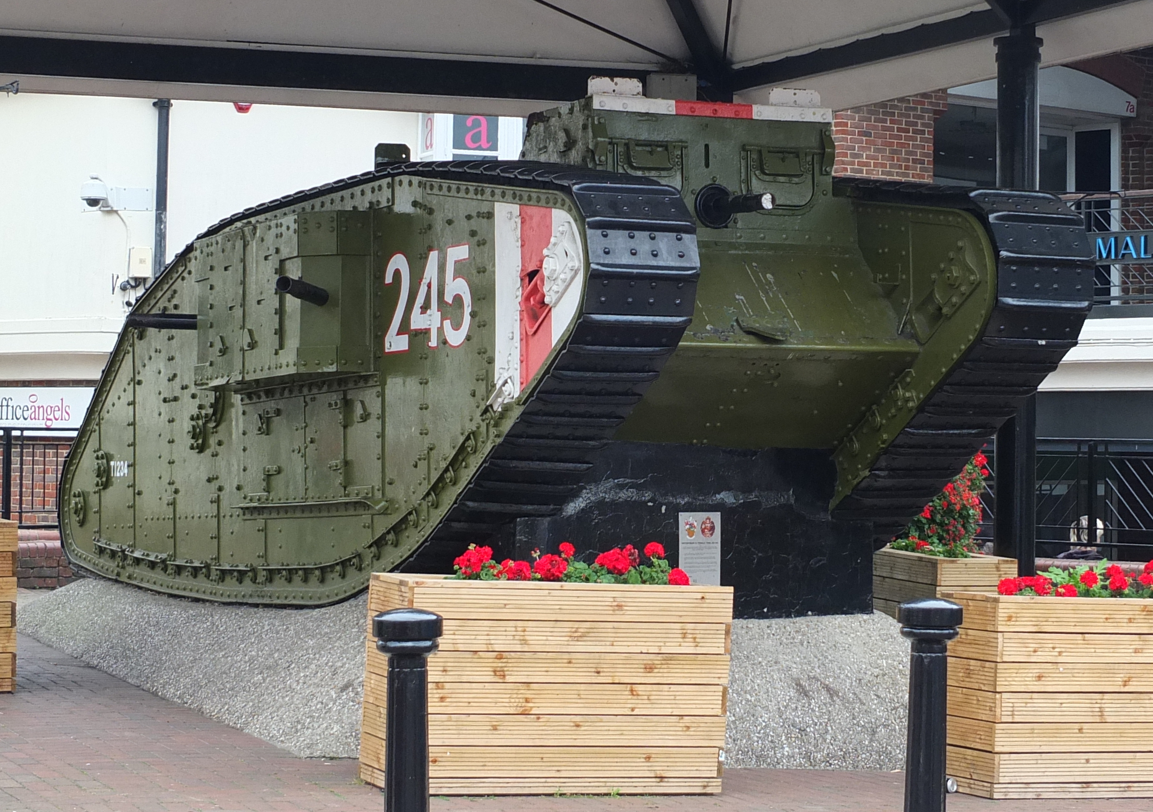 1917 British Mark IV tank (female) on display in Ashford, Kent, England. The tank was presented to the people of Ashford on August 1, 1919 by captain Walter Farrar MC, F Battallion Tank Corps in recognition of their splendid response to the national war savings appeal. N0 245 was de-activated by the removal of the rear drive and has the distinction of being the only surviving tank in situ on public display. A protective canopy was built over the tank in 1987. It is now registered as a War Memorial.